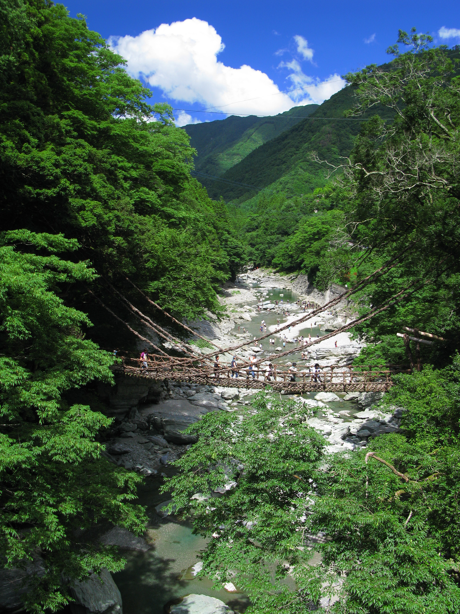 A kazurabashi on top of Iya Valley